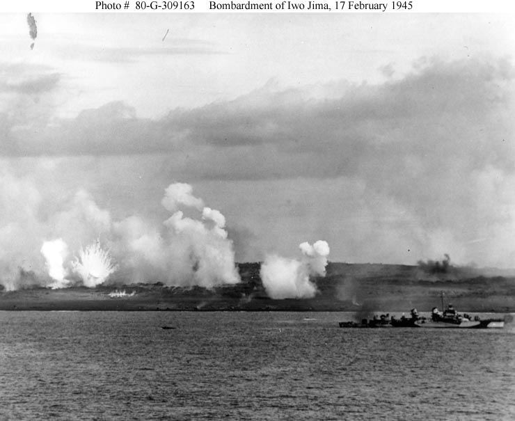 Texas doing a pre-invasion bombardment of Iwo Jima. Photograph taken from Texas herself, a Fletcher class destroyer can be seen in the picture.